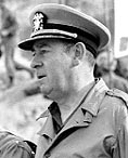 Photo #: 80-G-443337 U.S. and British Officers View sea and air landings as Marines stage amphibious training operations at Tokchok-kun-do island, off Inchon, South Korea, 24 June 1952. Rear Admiral Francis X. McInerney, USN; Official U.S. Navy Photograph, now in the collections of the National Archives.